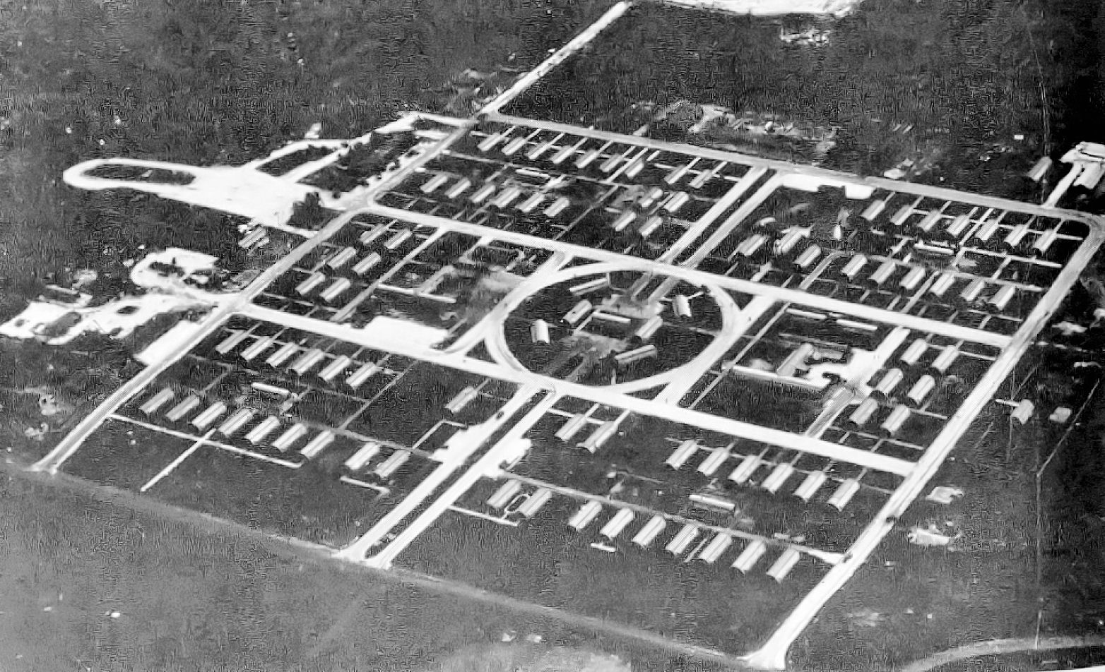 West Field, Tinian - Containment Area